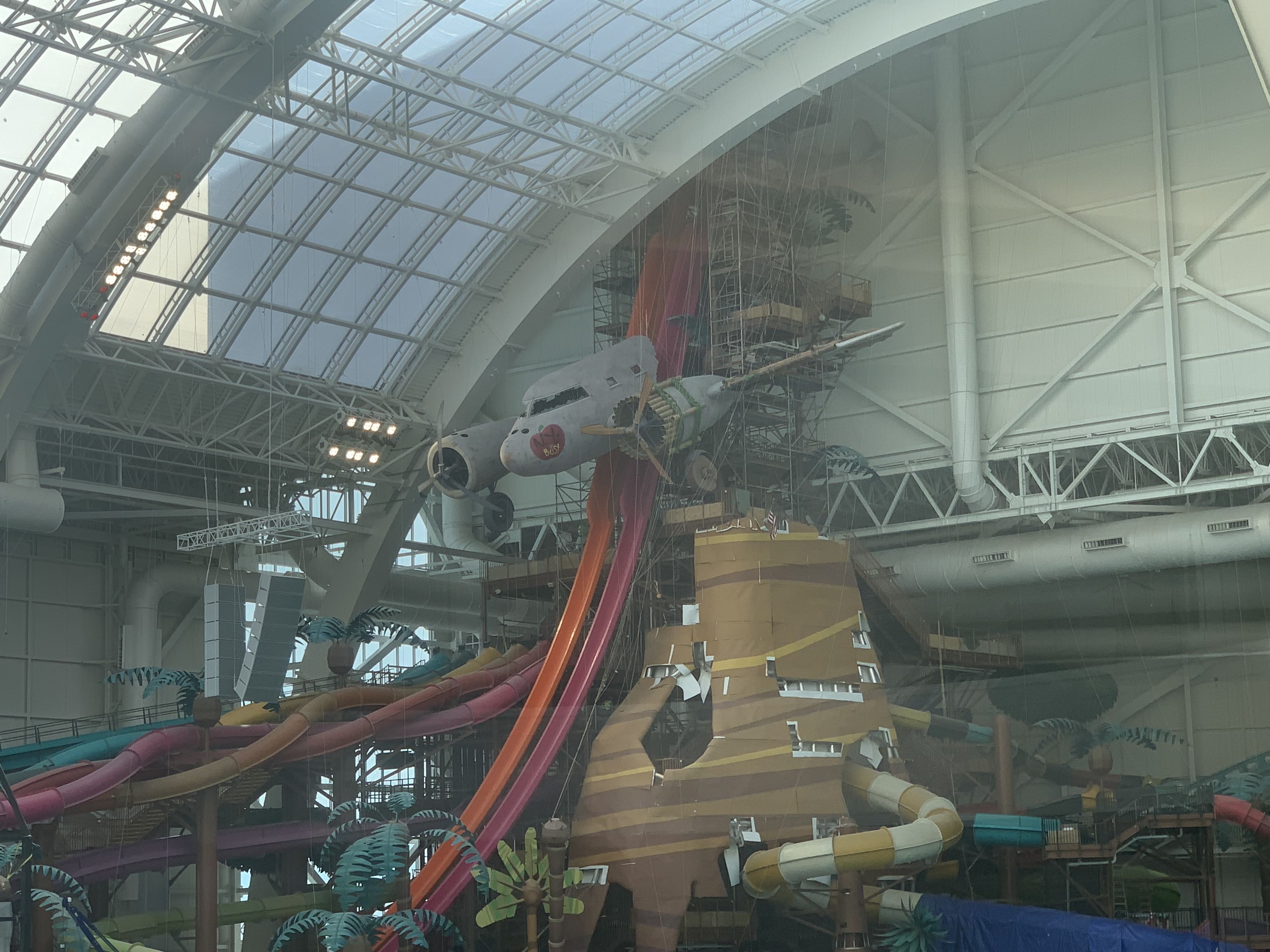 Nickelodeon Universe, American Dream Soft Opening